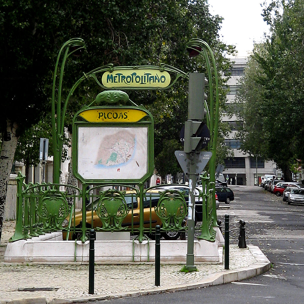 Hector Guimard entrance (Paris metro) at Picoas station, Lisboa, Portugal.